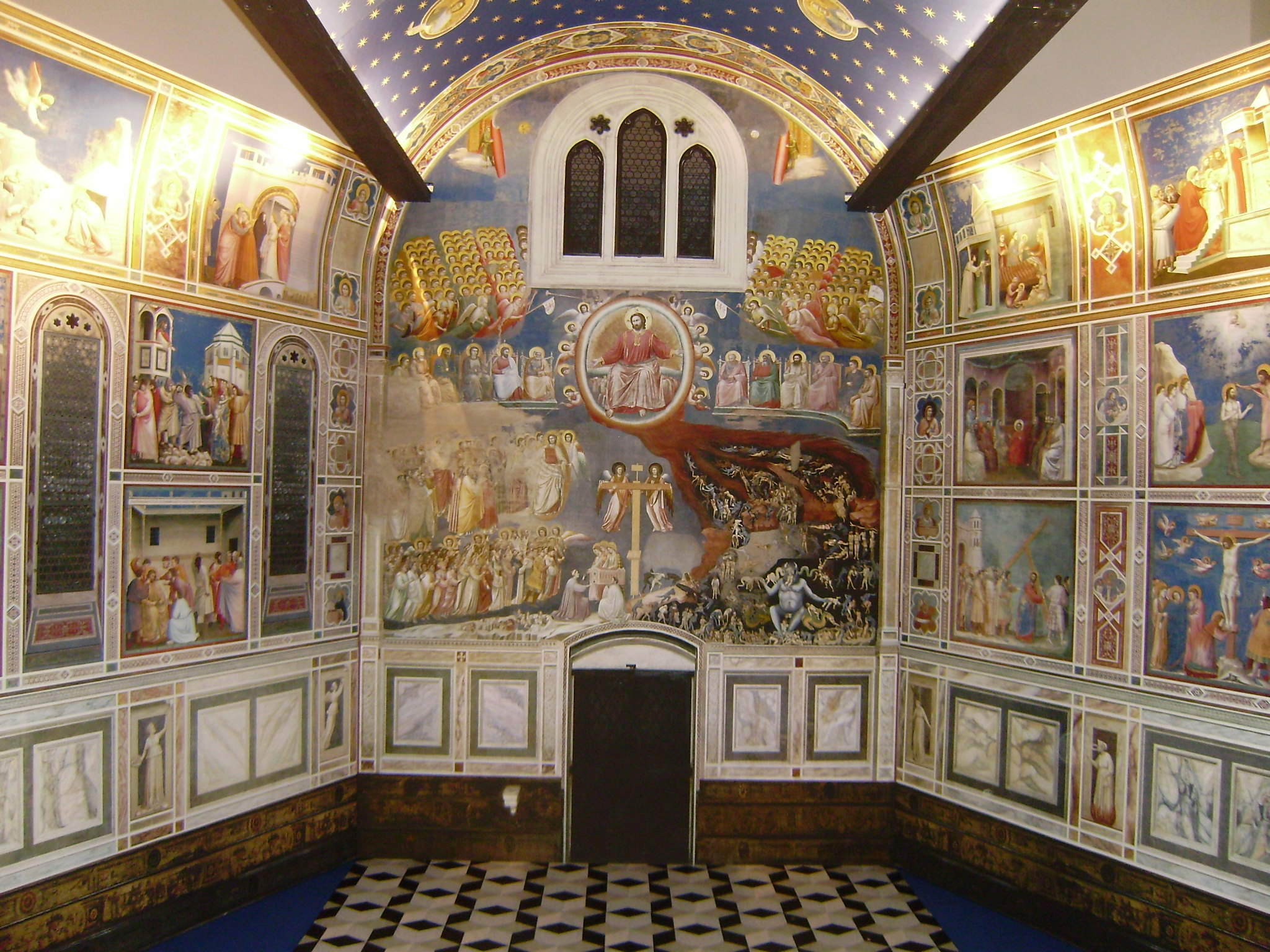 Model of Capella degli Scrovegni, which is a church in Padua, Italy. This reproduction on the scale of 1:4 was exhibited in Eretz Israel Museum in Tel Aviv, Israel, during November 2009 - February 9, 2010